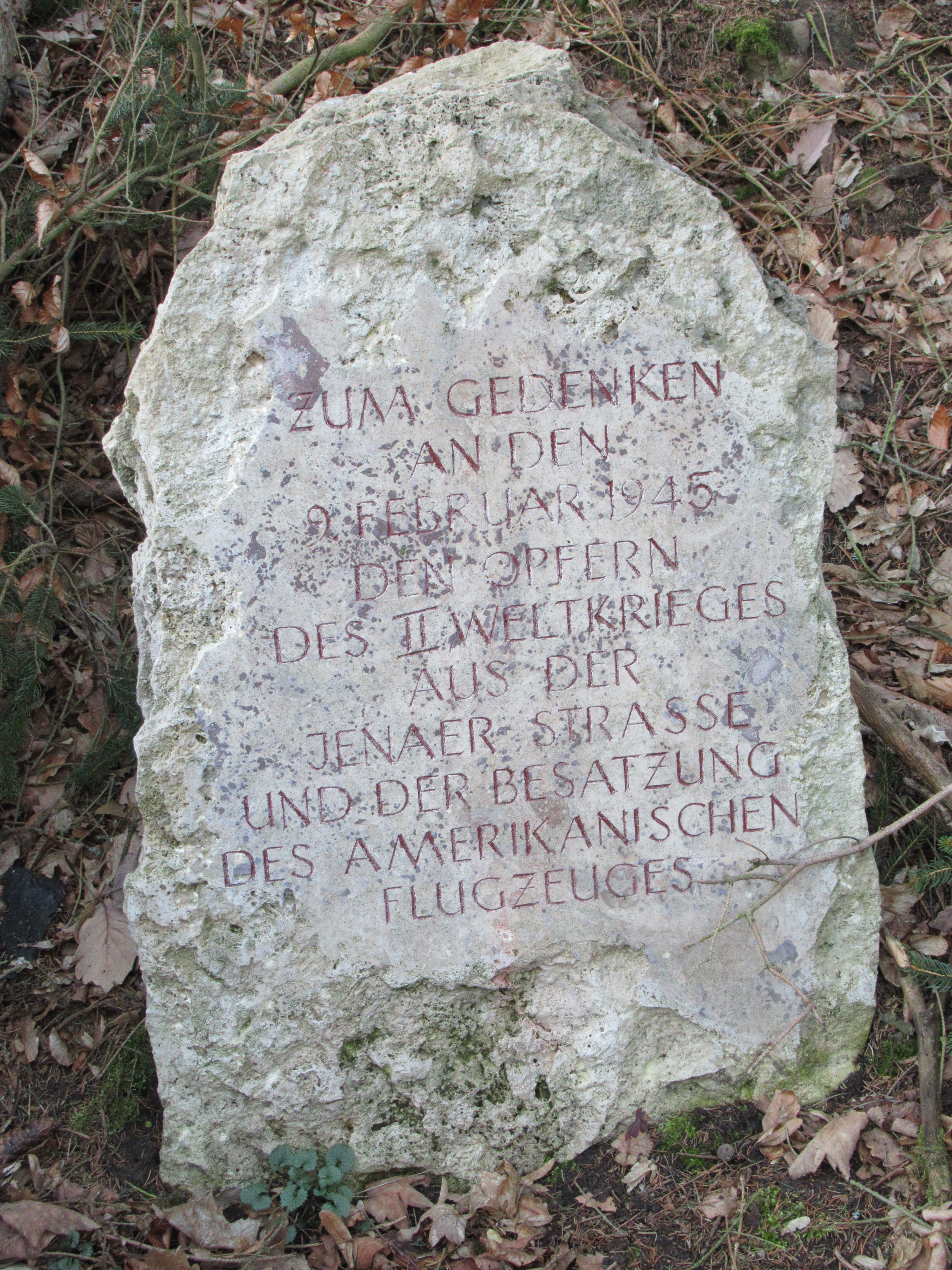 Memorial to Crash of an American bomber near Eisenberg, Thuringia and civil victims